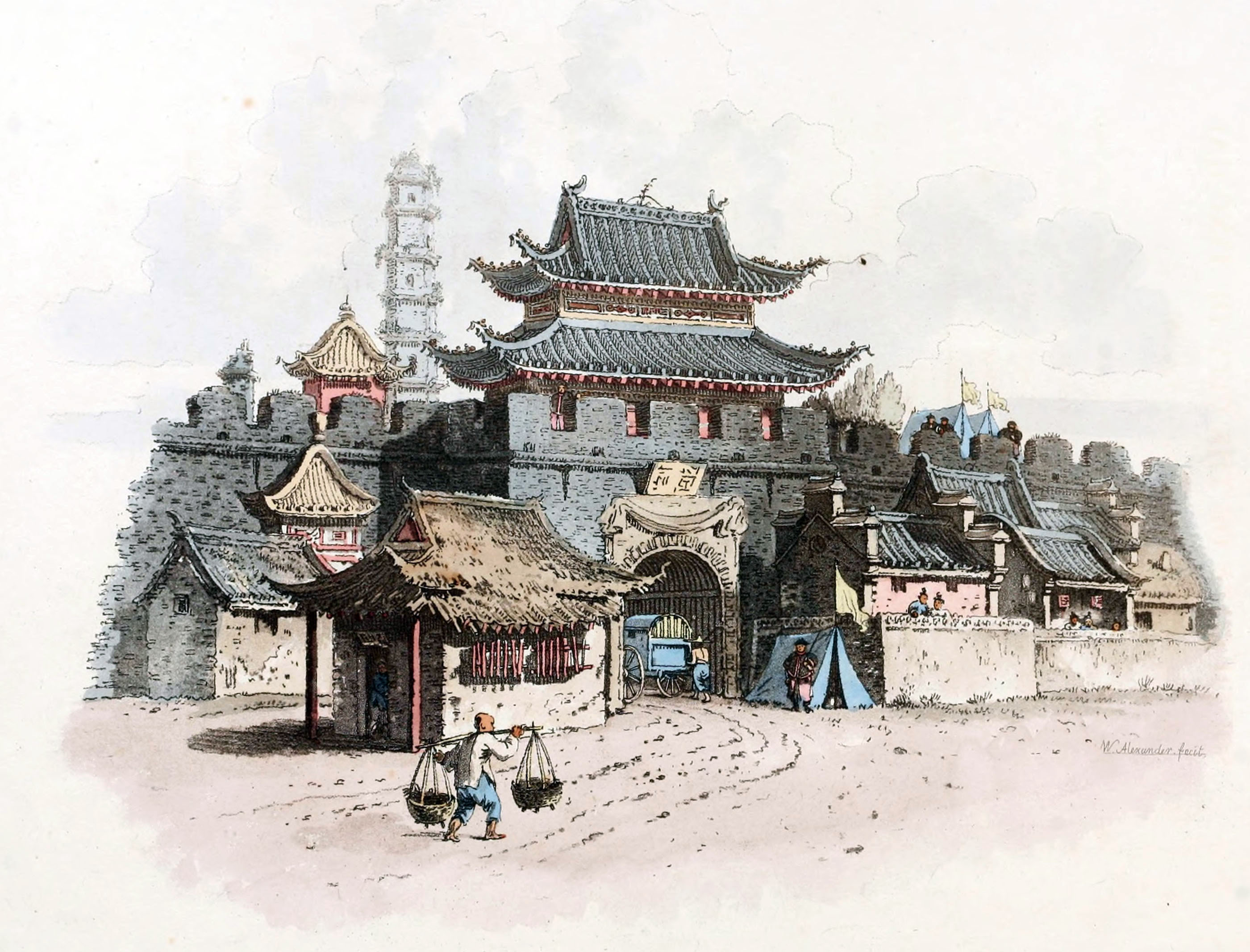 Drawing by William Alexander, draughtsman of the Macartney Embassy to China in 1793. The South Gate of the city of Ting-Hai, a port in the harbor of Tchu-san on the Island of Chusan, known also as the Zhoushan Island, of the Chusan Archipelago. The city walls were located a mile afar from the sea. Alexander noted that the walls were near thirty feet in height, which entirely precluded the sight of the houses that were in general one story high; the yellow board over the arch has Chinese characters on it signifying the name and rank of the city. The carriage entering the city, is a common vehicle used for the conveyance of persons of consequence. Alexander noted that the Chinese have not adopted the use of springs, therefore such vehicles were little better than a European cart. The figure in the foreground shows the usual method of carrying light burdens, such as vegetables and fruits. Ting-hai served as a provincial capital city, and in 1840, the South Gate was stormed by British forces during the First Opium War. Image taken from The Costume of China, illustrated in forty-eight coloured engravings, published in London in 1805.